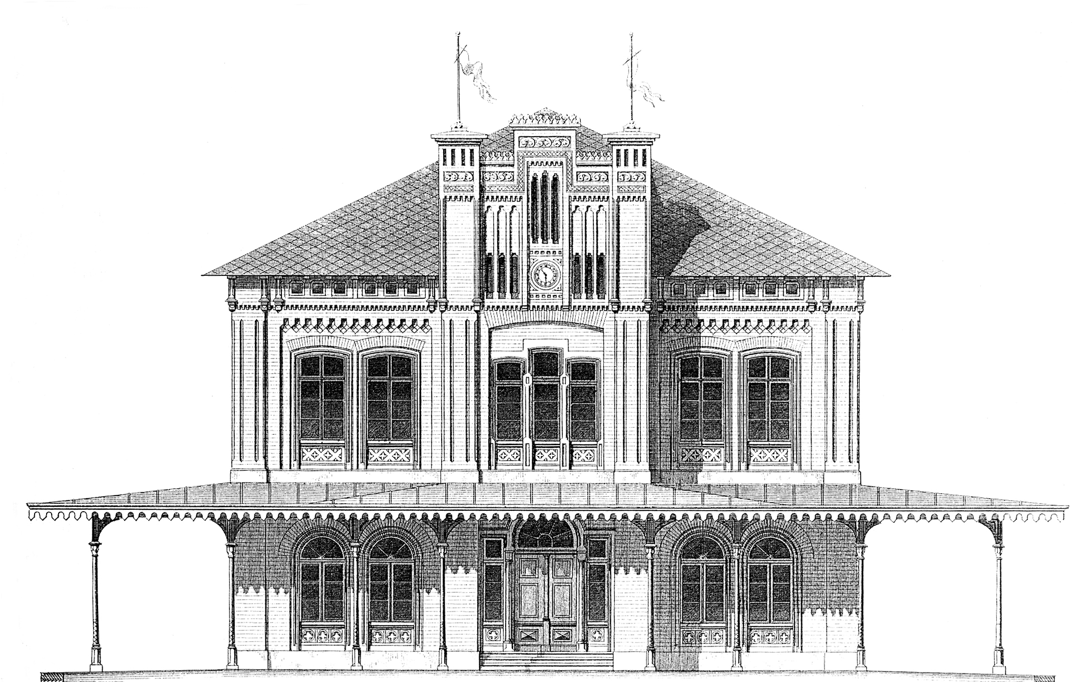 Railway station in Nordstemmen, draft by Conrad Wilhelm Hase